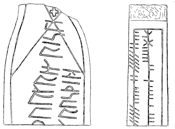 Drawing of the Ogham and runic inscription of the Killaloe Stone, also called Shantraud Ogham-Runic Stone (CIIC 54), in the St Flannan's Cathedral in Killaloe, County Clare, Ireland.